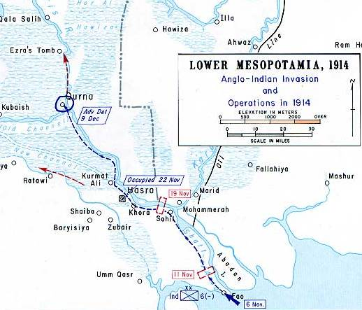 This map shows the initial British attack and capture of Basra, 1914. See Battle of Basra (1914).